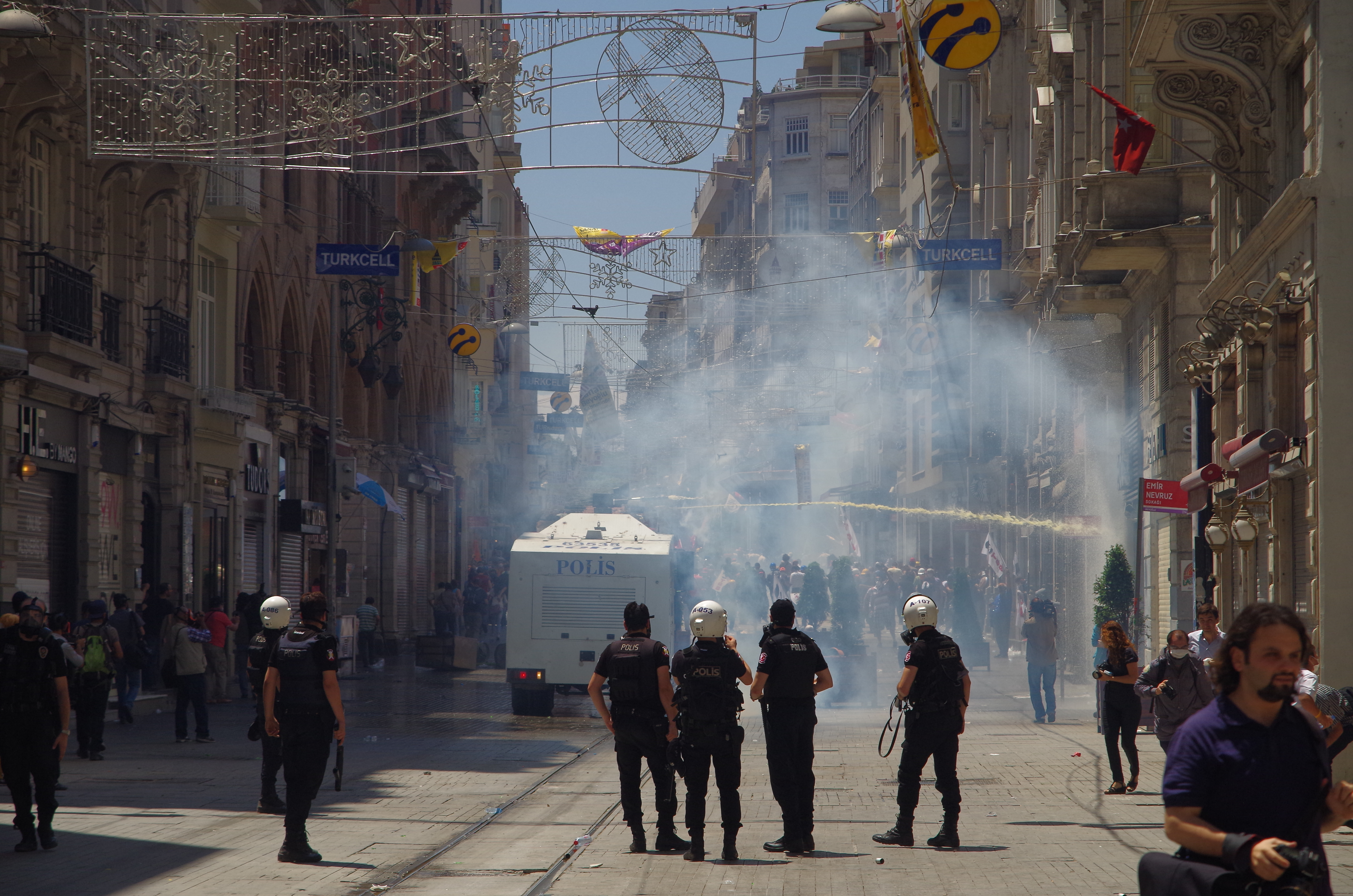 TOMA Water Cannon & Tear Gas used on İstiklâl Caddesi near Taksim Square